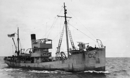 Starboard bow view of the auxilary minesweeper HMAS Olive Cam.